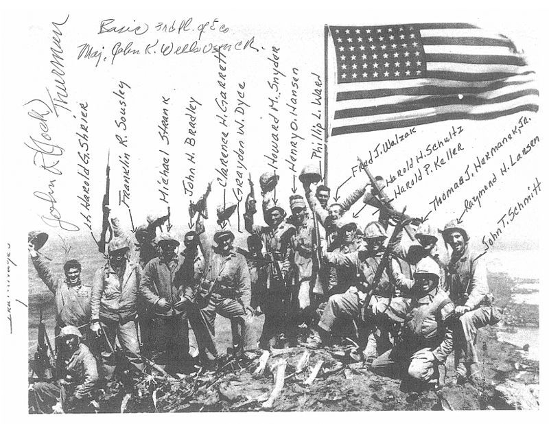 Photo of US Marines after the famous flag raising on Iwo Jima.